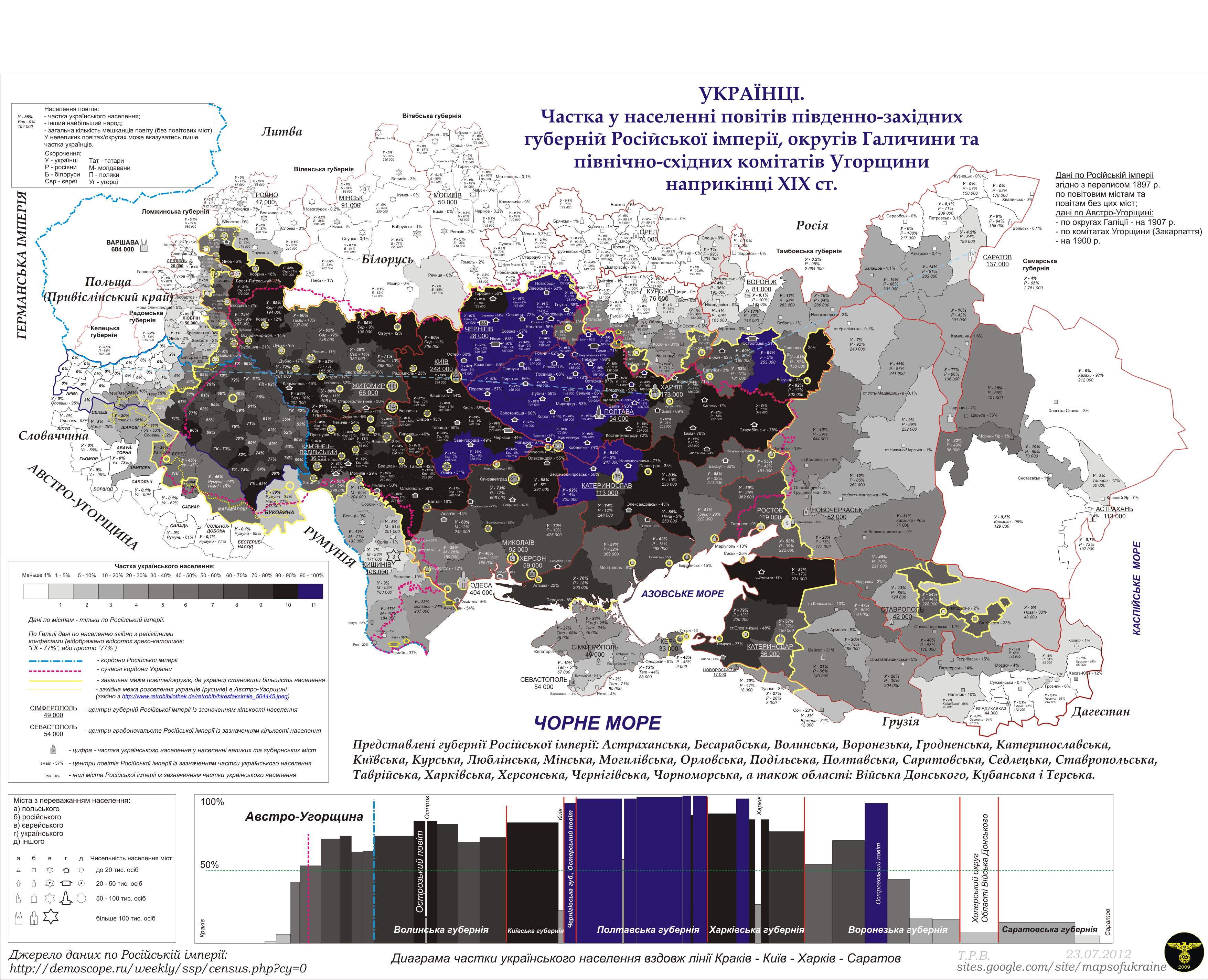 UKRAINIAN. Share of the population of south-western districts provinces of the Russian Empire, the districts of Galicia and north-eastern Hungary comitates the late nineteenth century.